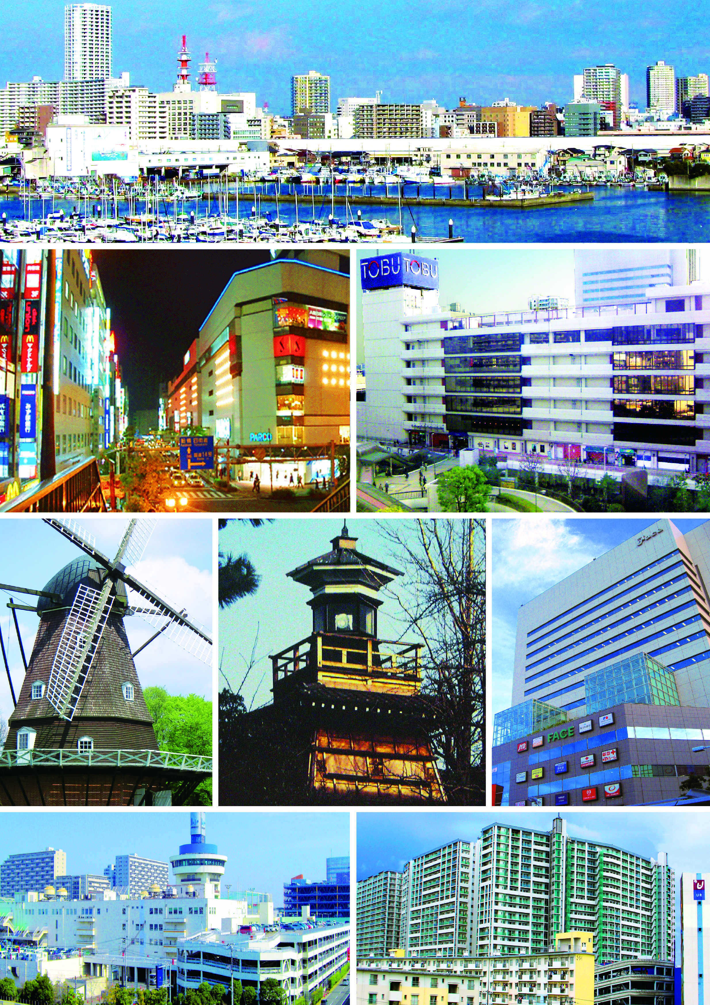 Funabashi montage.jpg